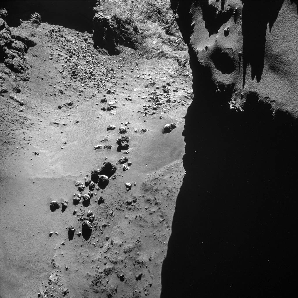 This single frame Rosetta navigation camera image was taken from a distance of 10.0 km from the surface of Comet 67P/Churyumov-Gerasimenko, on 17 October 2014. The 1024 x 1024 pixel image frame has a resolution of 87 cm/pixel and measures 870 m across. More information and the original image via the blog: CometWatch: Focus on Hapi’s boulders Credit: ESA/Rosetta/NavCam – CC BY-SA IGO 3.0 This work is licenced under the Creative Commons Attribution-ShareAlike 3.0 IGO (CC BY-SA 3.0 IGO) licence. The user is allowed to reproduce, distribute, adapt, translate and publicly perform this publication, without explicit permission, provided that the content is accompanied by an acknowledgement that the source is credited as 'ESA - European Space Agency’, a direct link to the licence text is provided and that it is clearly indicated if changes were made to the original content. Adaptation/translation/derivatives must be distributed under the same licence terms as this publication. The user must not give any suggestion that ESA necessarily endorses the modifications that you have made. No warranties are given. The license may not give you all of the permissions necessary for your intended use. For example, other rights such as publicity, privacy, or moral rights may limit how you use the material. To view a copy of this license, please visit